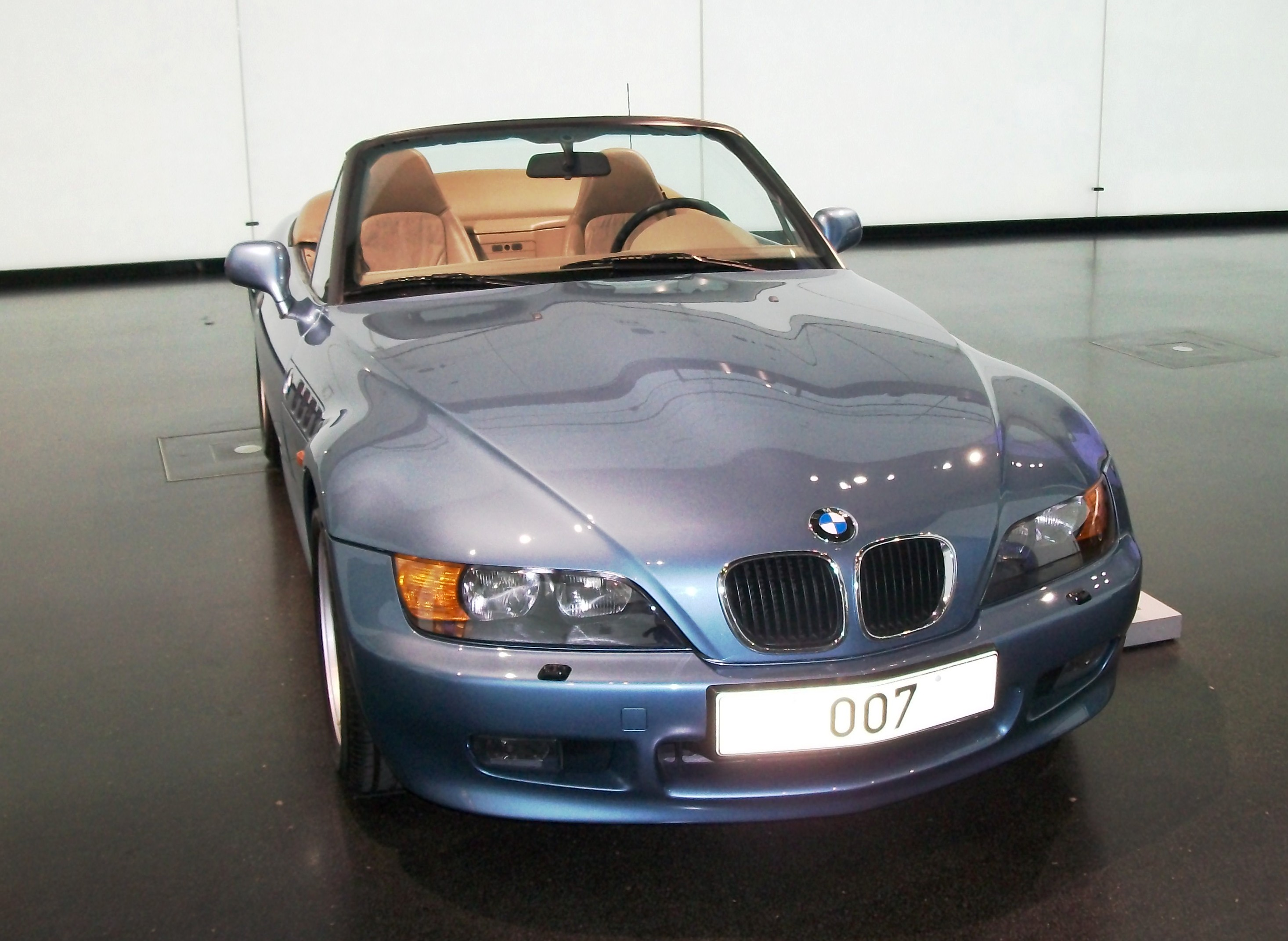 1995 BMW Z3 from the James Bond film "GoldenEye" in BMW Welt museum,Munich